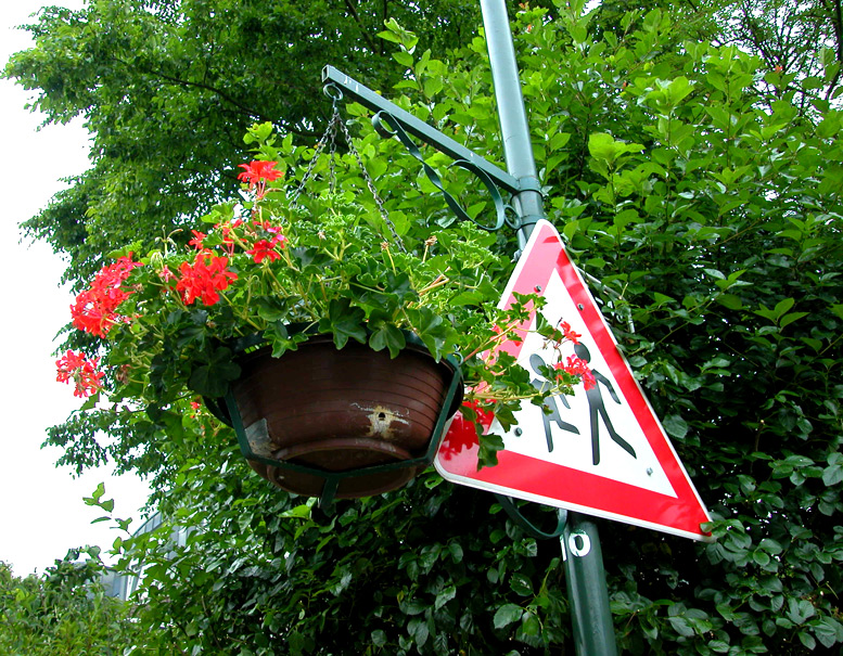 Duesseldorf, Benrath, Am Moenchgraben (Street)